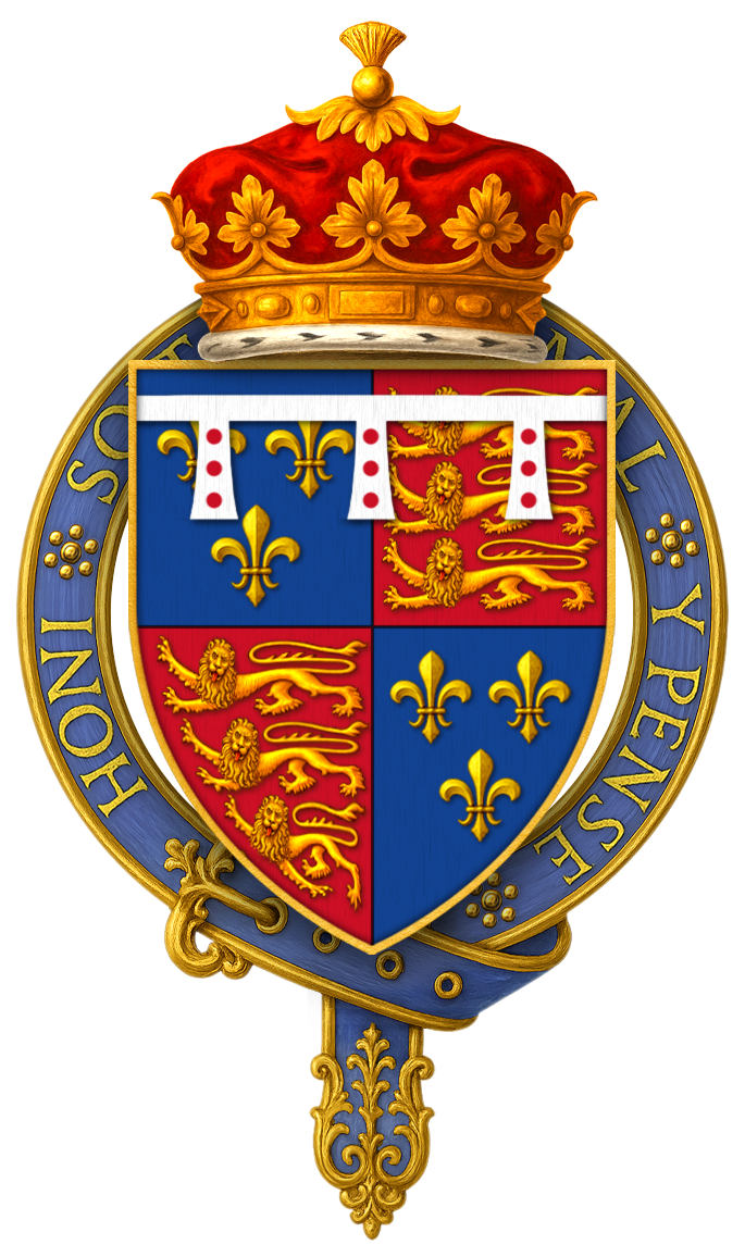 Richard of York, 3rd Duke of York, KG